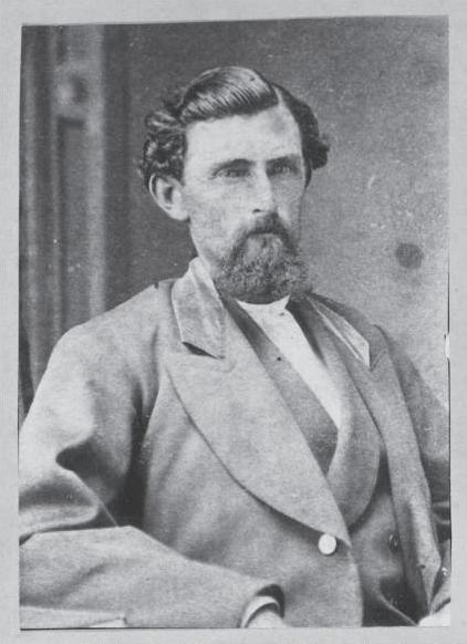 Portrait of Samuel Ealy Johnson Sr.